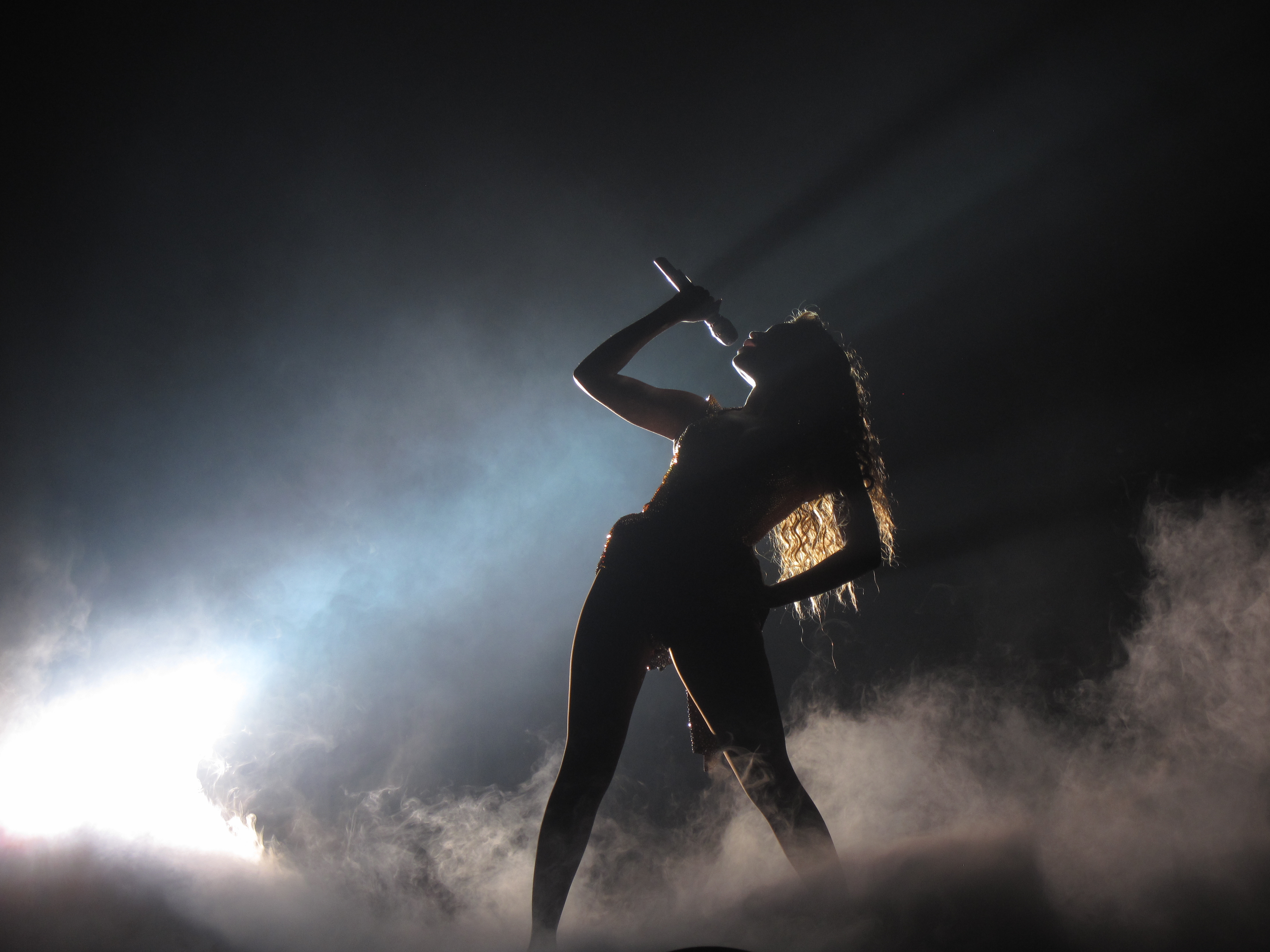 Beyoncé performing on The O2 in London.